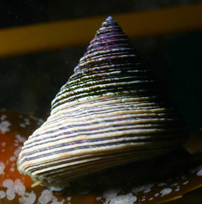 The channeled top snail Calliostoma canaliculatum crawling on a blade of the giant kelp Macrocystis pyrifera.